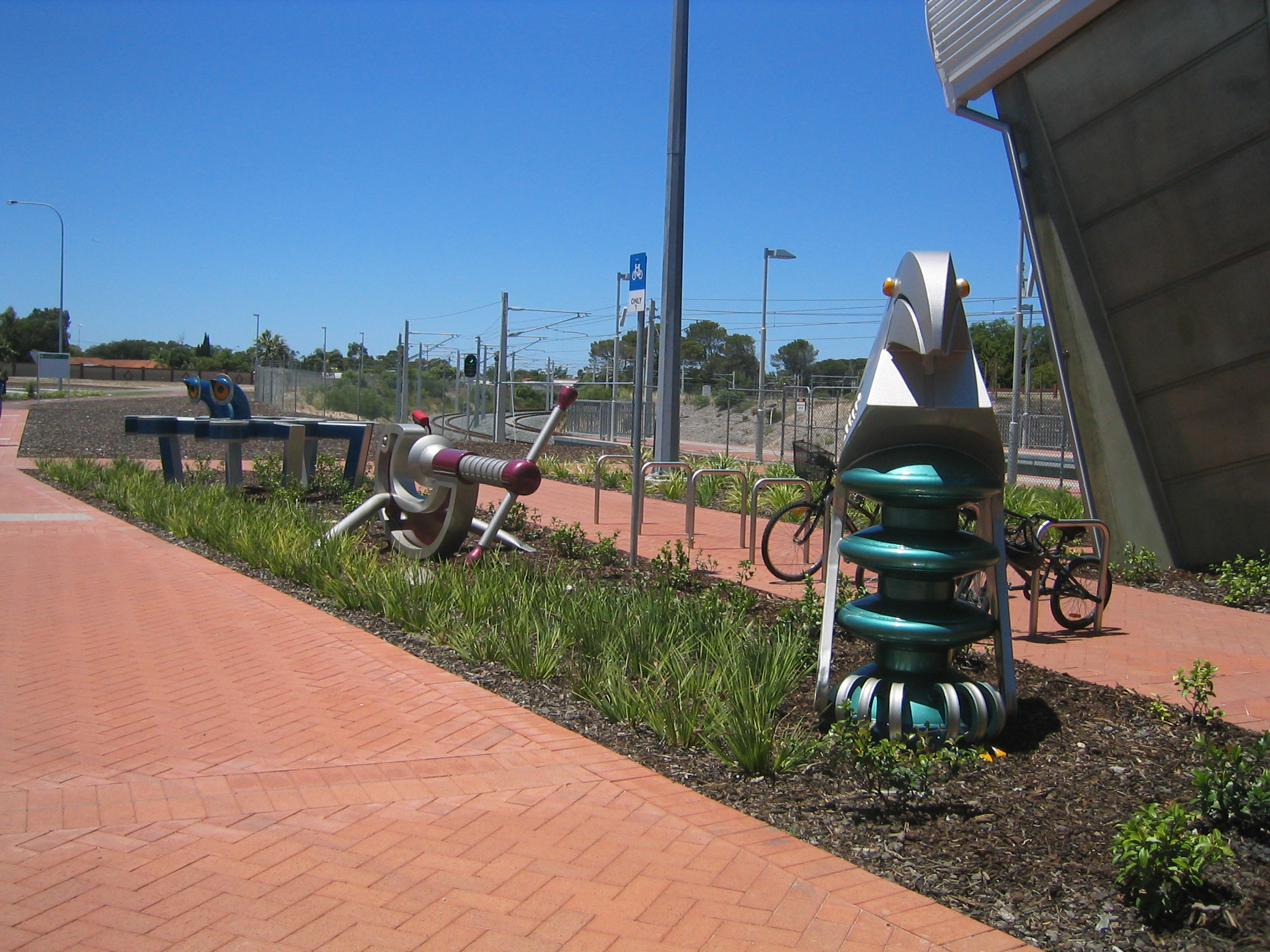 The station decoration outside of Rockngham Station.